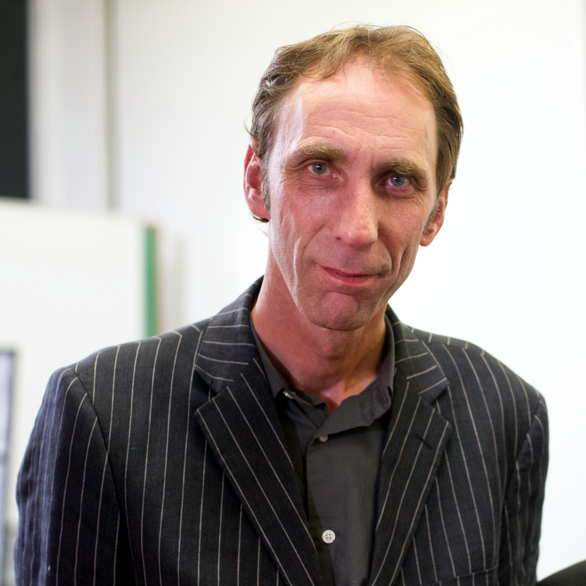 Will Self at Texas A&M, cropped, levels adjusted.